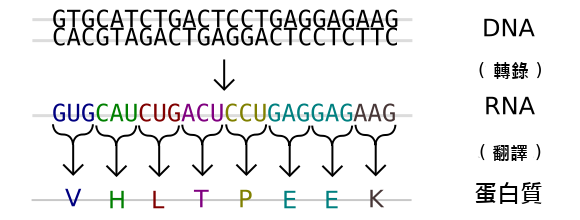 Chinese translation of Genetic code.svg